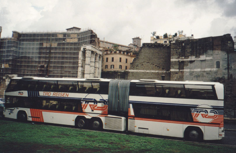 Neoplan Jumbocruiser articulated double-decker coach (#723) in Rome, Italy. TRD-Reisen Fischer GmbH & Co. KG from Dortmund operator.